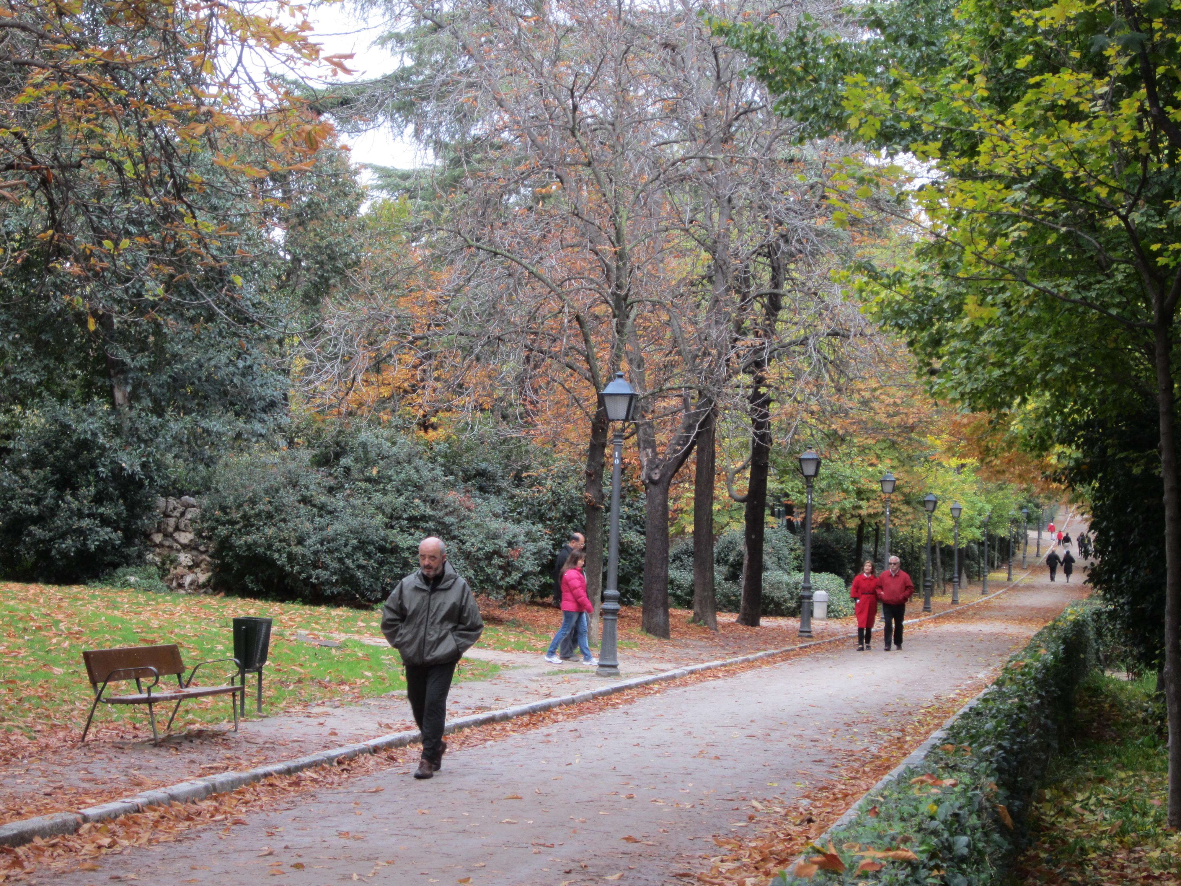 Public space, Madrid's parks